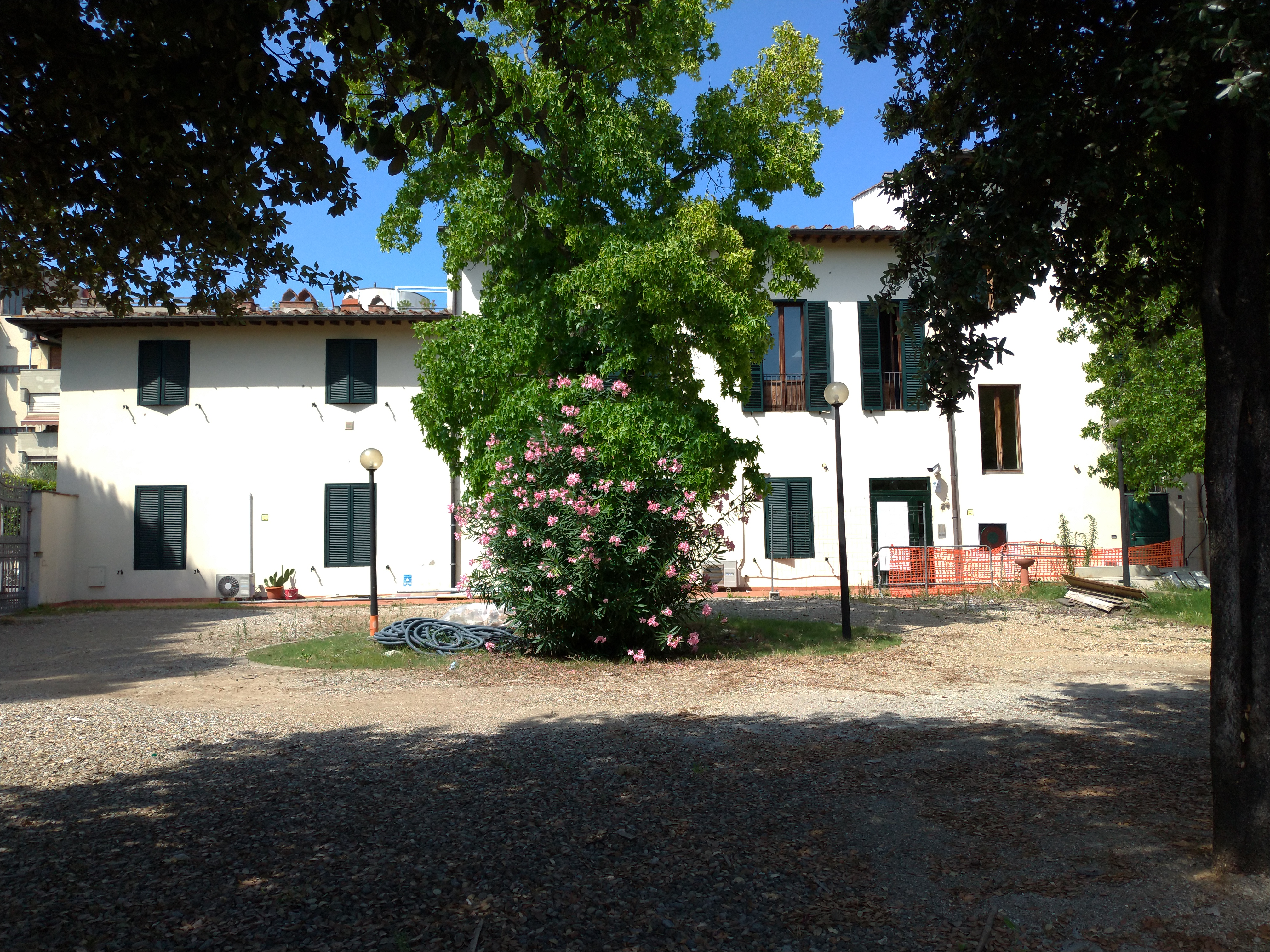 La Funga